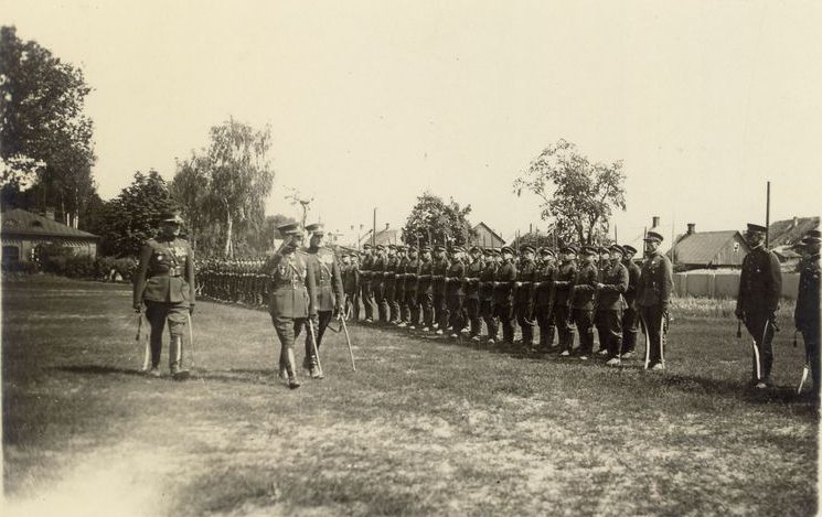 General Stasys Raštikis inspects Lithuanian troops. Officer on the left is polkovnik lieutenant Juozas Lavinskas.